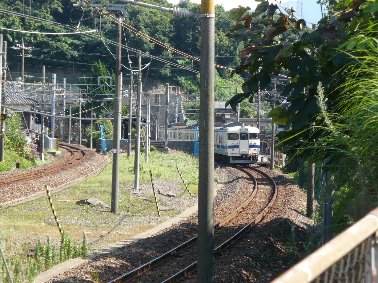 Shimonoseki side portal of Kammon railway tunnel. Kyushu-bound train is entering to Honshu-bound track due to single track working of tunnel during maintenance work